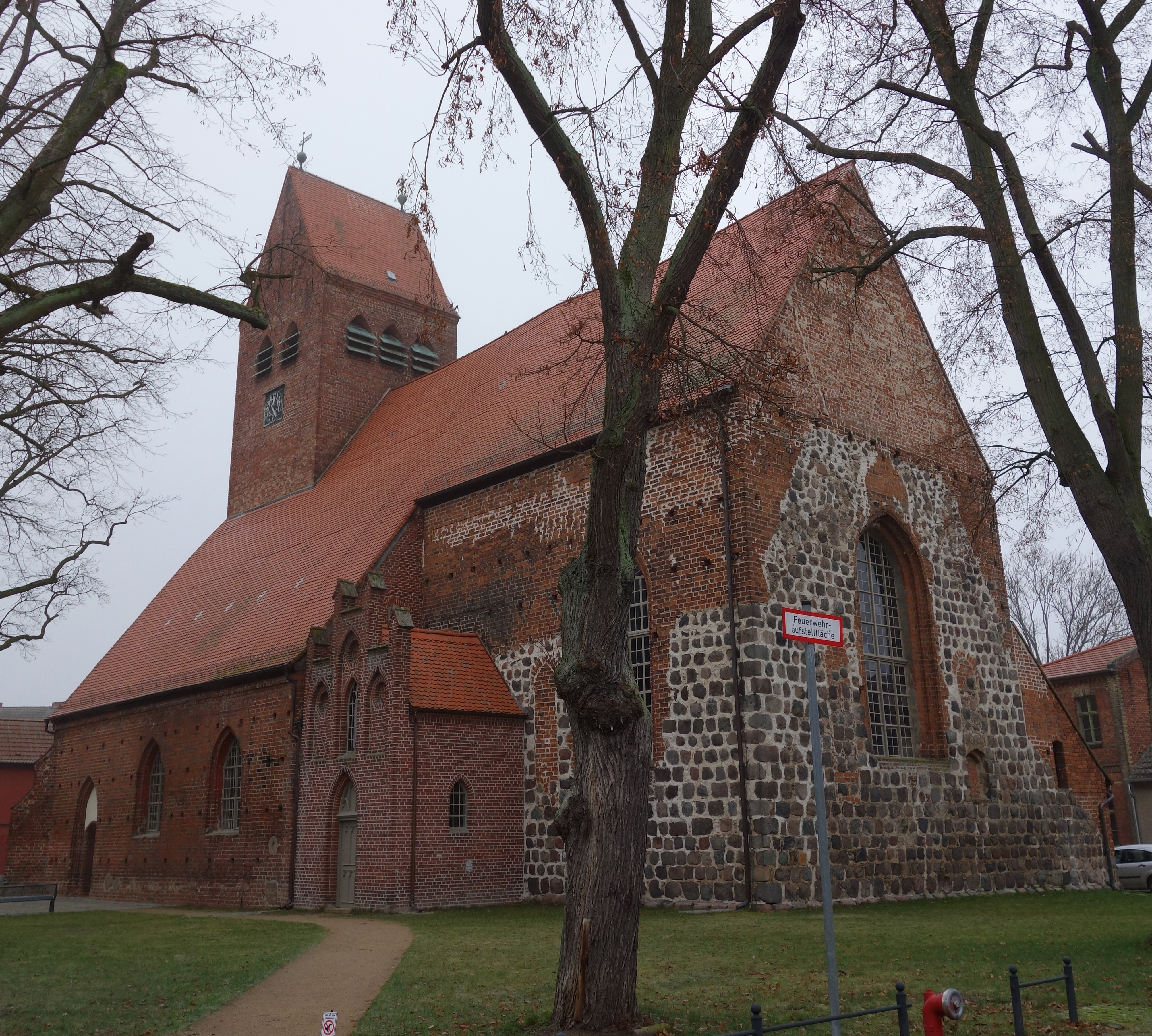 South-eastern view of church St.Nicolas, Kremmen municipality, Oberhavel district, Brandenburg state, Germany